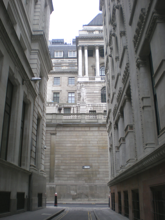 View of the Bank of England from the North (Tokenhouse Yard)